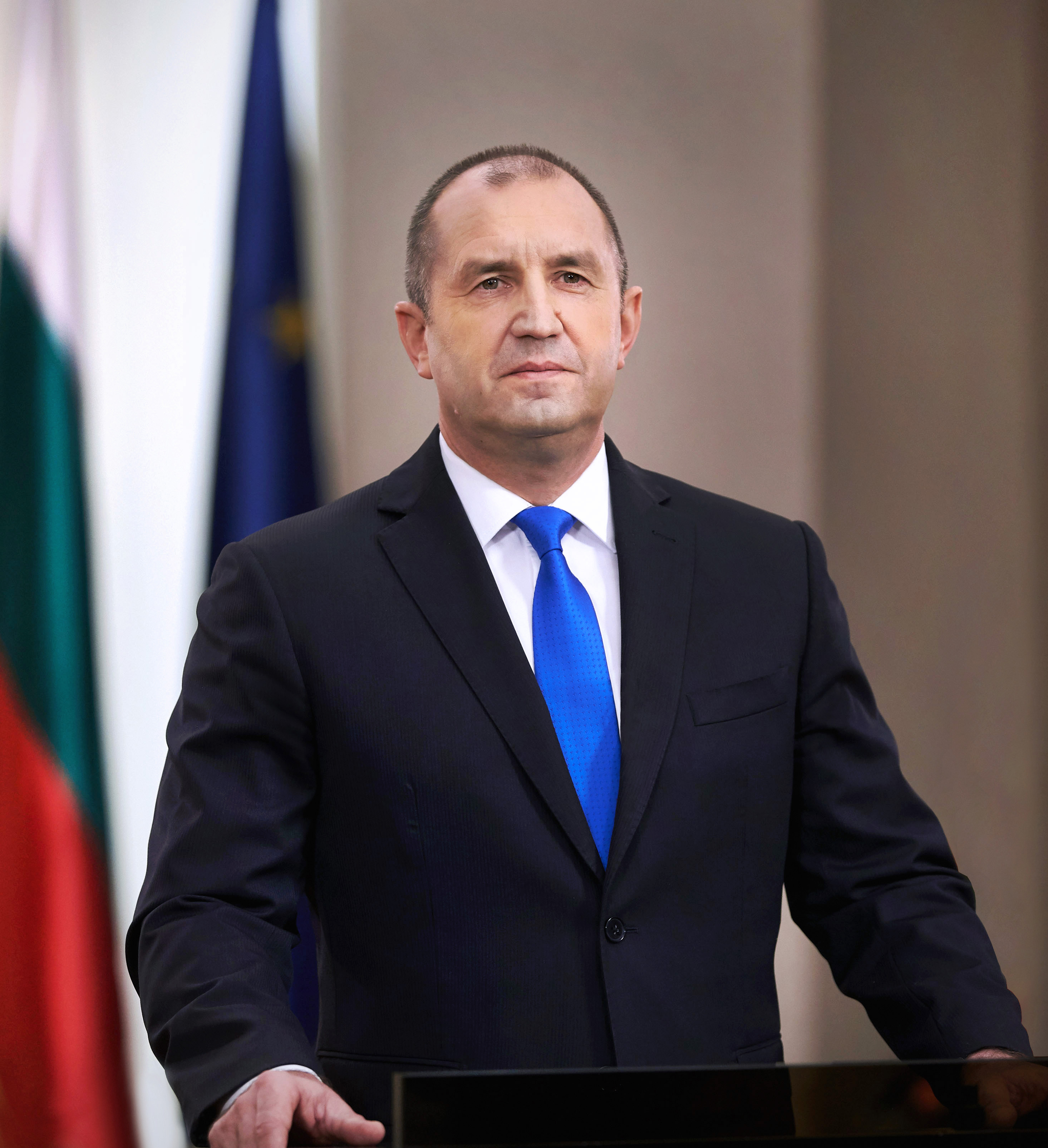 Official portrait of the bulgarian president Rumen Radev